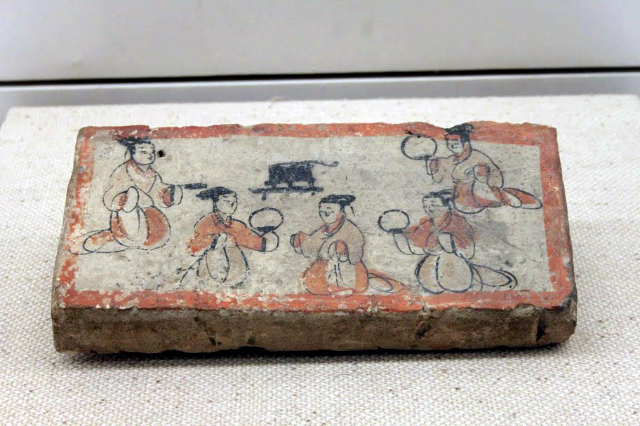 A Chinese Three Kingdoms (220-280 AD) decorated brick taken from the wall of an underground tomb, depicting people in a domestic scene.